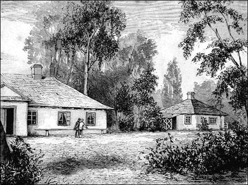 Farmstead of Kraszewski family in Doǔhaje (nowadays Pružany district, Belarus)